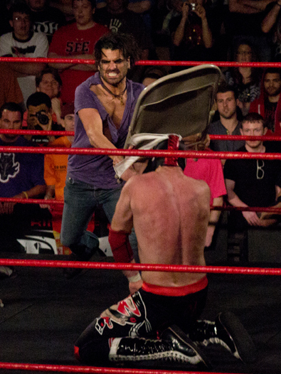 Jimmy Jacobs swerve storyline at Showdown in the Sun. Jacobs turned on El Generico, hitting him with a steel chair on March 30, 2012. The pair faced off in a singles match the following night. Cropped from original.